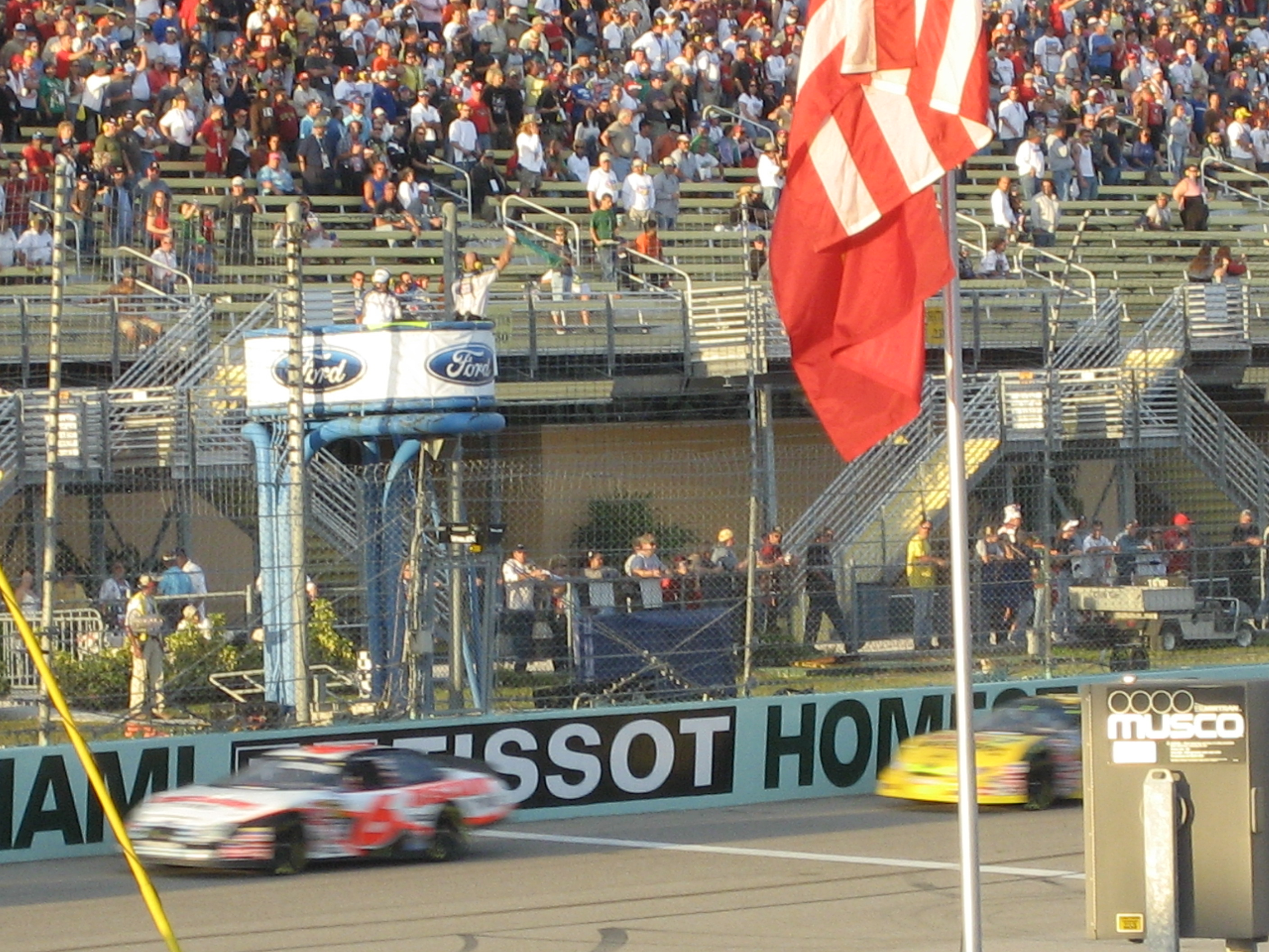 David Ragan (#6) leads Dave Blaney (#10) to a restart at the 2007 Ford 300 at the Homestead-Miami Speeway.